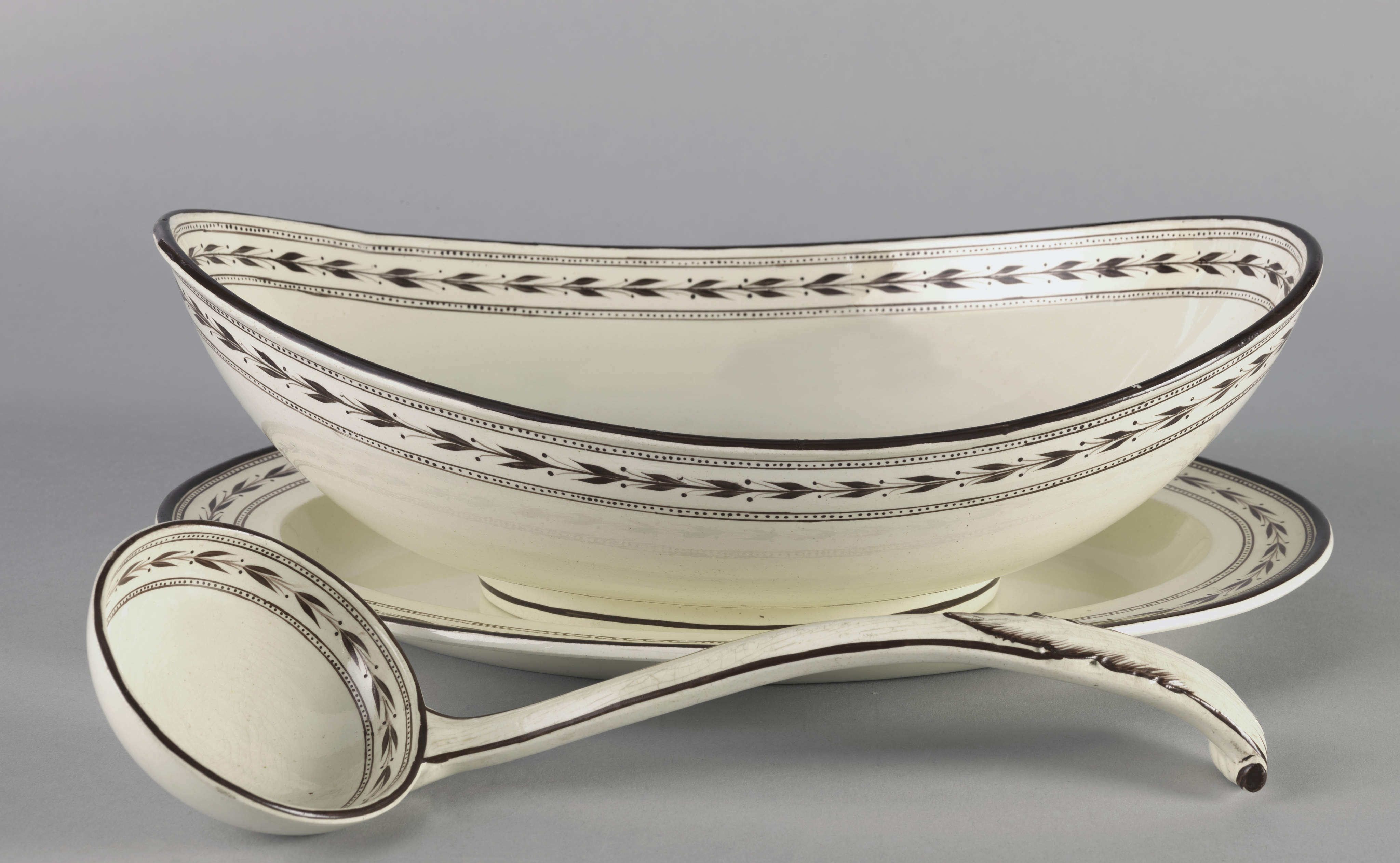 Dish semi-ovoid with raised ends, on elliptical foot. Tray elliptical, with flat marly. Ladle semi-spherical with curved handle and scrolled end. Borders of brown husk decoration, with dotted and solid bands.